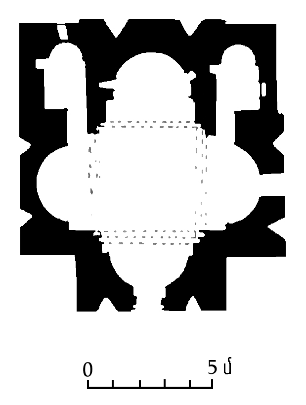 Plan of Gndevank church